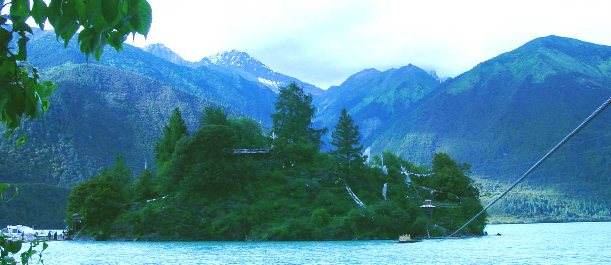 Author: Kosi Gramatikoff; Photography: Kosi Gramatikoff; Tsozong Gongba Monastery - Tashi (in Chinese Zhaxi/Tsaxi) Island in the middle of the Basum Tso Lake, behind is peak (6,200km).